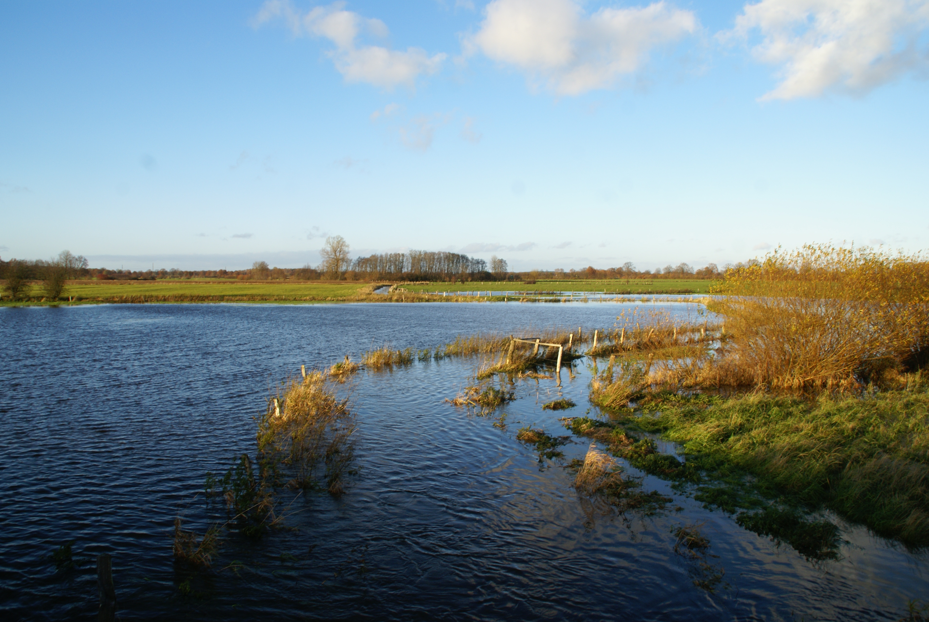 Nahe, Germany: The inundated valley of the river Rönne seen from the former railway bridge in northern direction